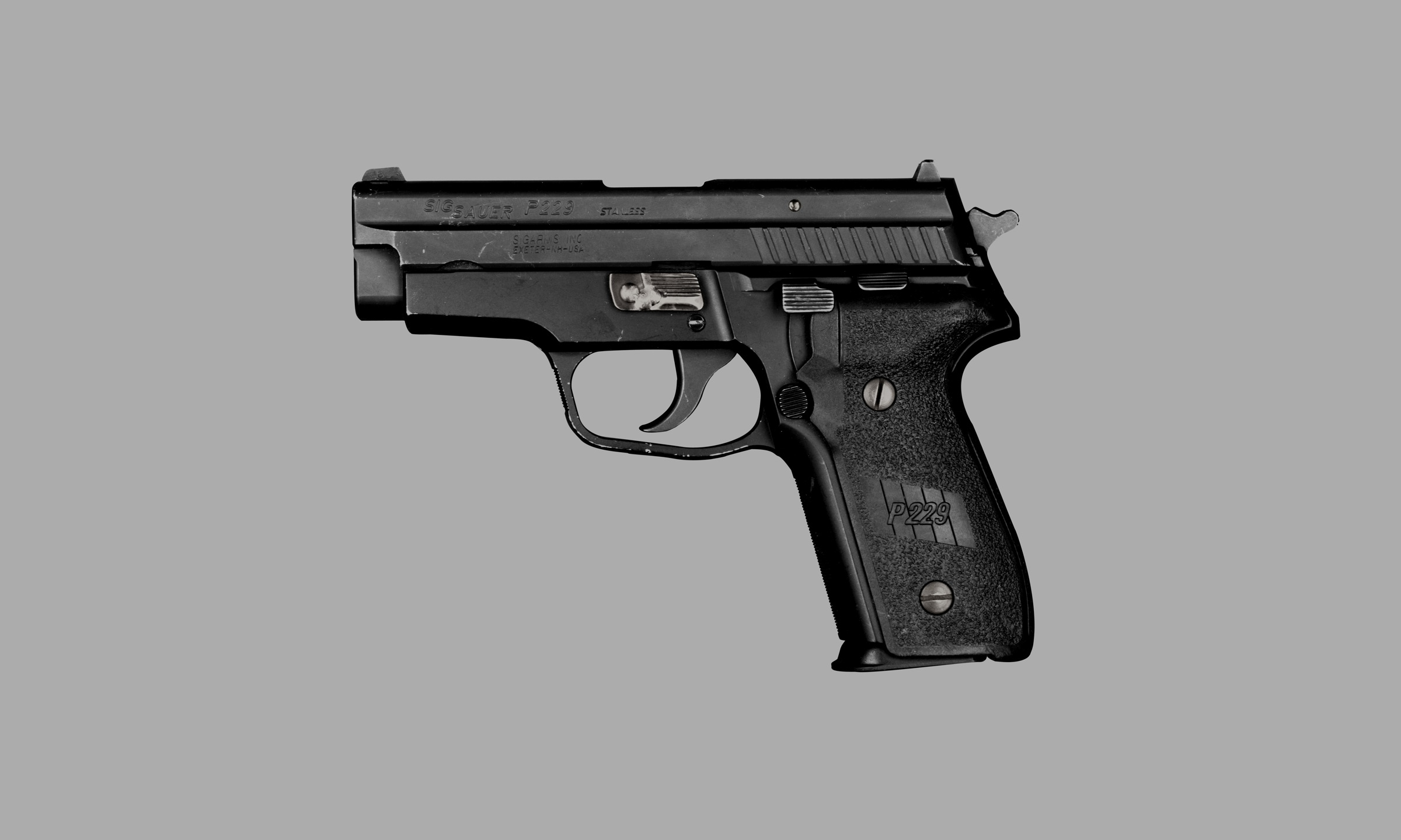 This is a photo of a piece by James Georgopoulos to be used on his wiki: James Georgopoulos